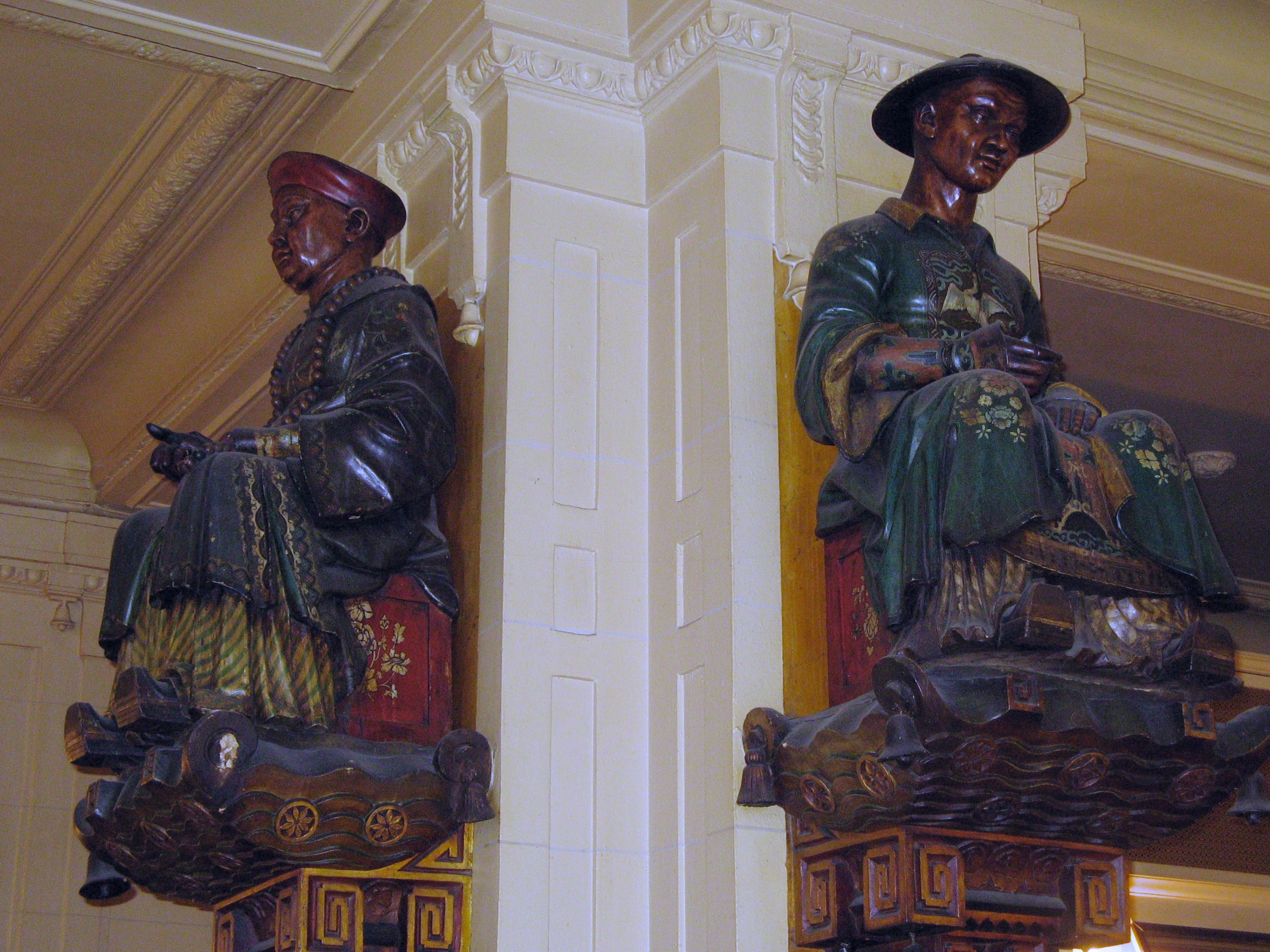 Figures of the two magotsin the Paris café «Les Deux Magots»